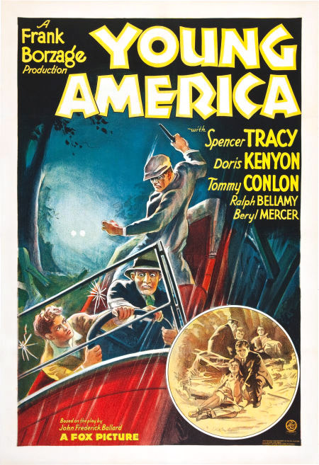 Movie poster for Young America (1932) Fair use rationale in Young America (1932 film) This image is being used to illustrate the article or text on the movie in question and is used for informational or educational purposes only. This image is of low resolution. It is believed that this image will not devalue the ability of the copyright holder to profit from the original work. No alternate, free image exists that can be used to illustrate the subject matter.